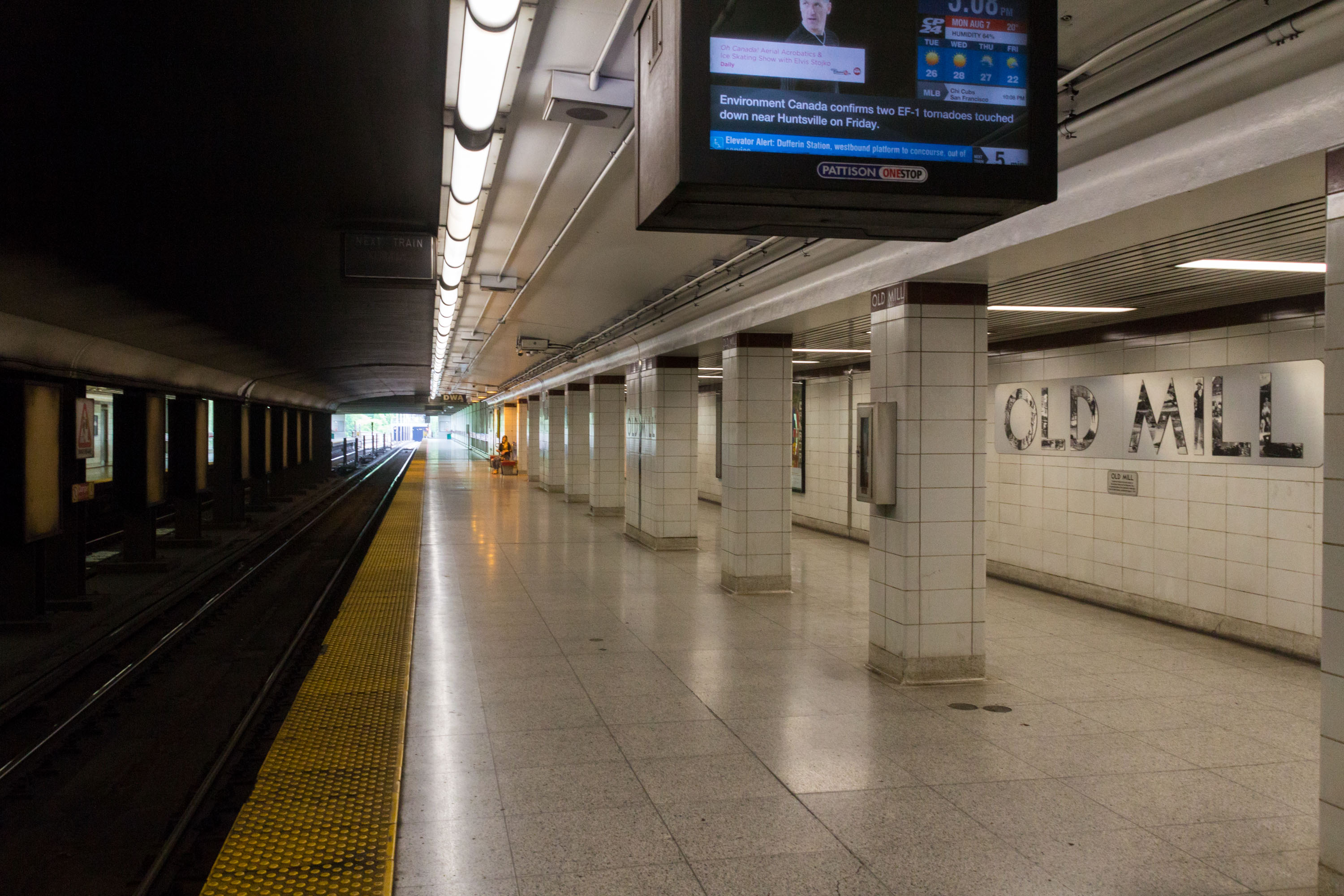 Old Mill Platform